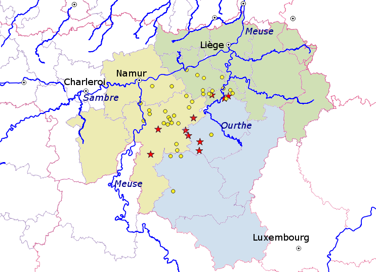 The file is mainly based of data in Ulrich Nonn's Pagus und Comitatus. Software: Gimp, and Qgis. Base maps: Openstreetmap.